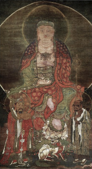 Hooded Ksitigarbha, Engakuji, Kamakura, Japan